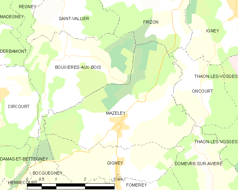 Map of French municipality Mazeley